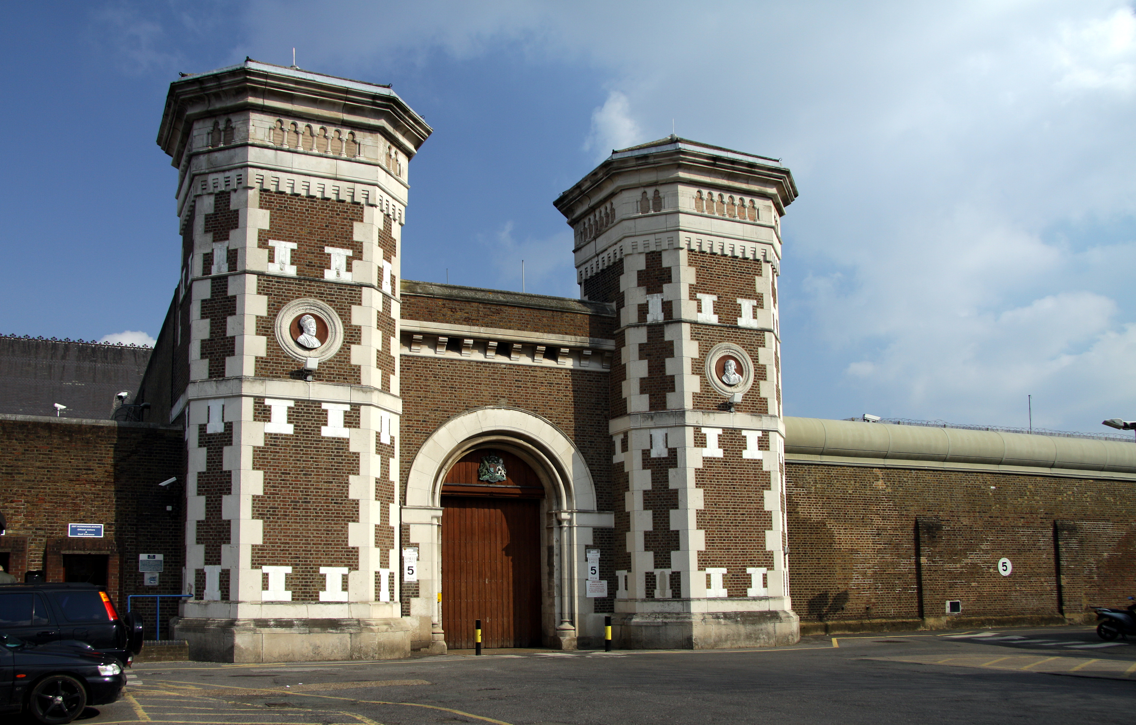 Main gate to the HM Prison Wormwood Scrubs in London, England, Great Britain - Google Maps - Google Earth